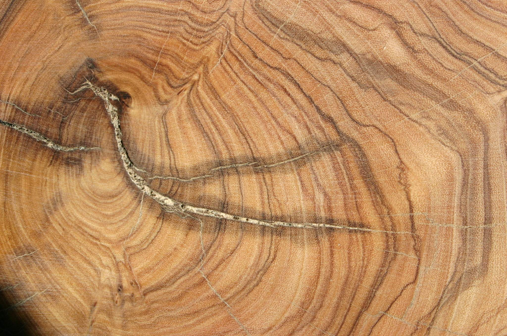 Cross-section of trunk of Olea europaea subsp. cuspidata (Wall. ex G. Don) Cif. formerly known as Olea africana Mill. - Johannesburg, South Africa